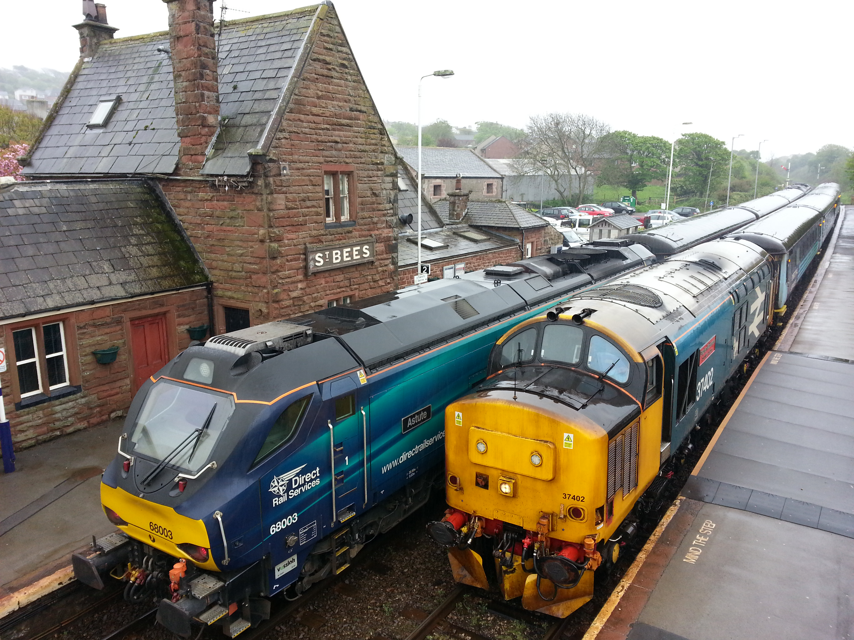 A class 37 and a class 68 cross with MKII passenger stock at St Bees on the Cumbrian Coast line May 2018